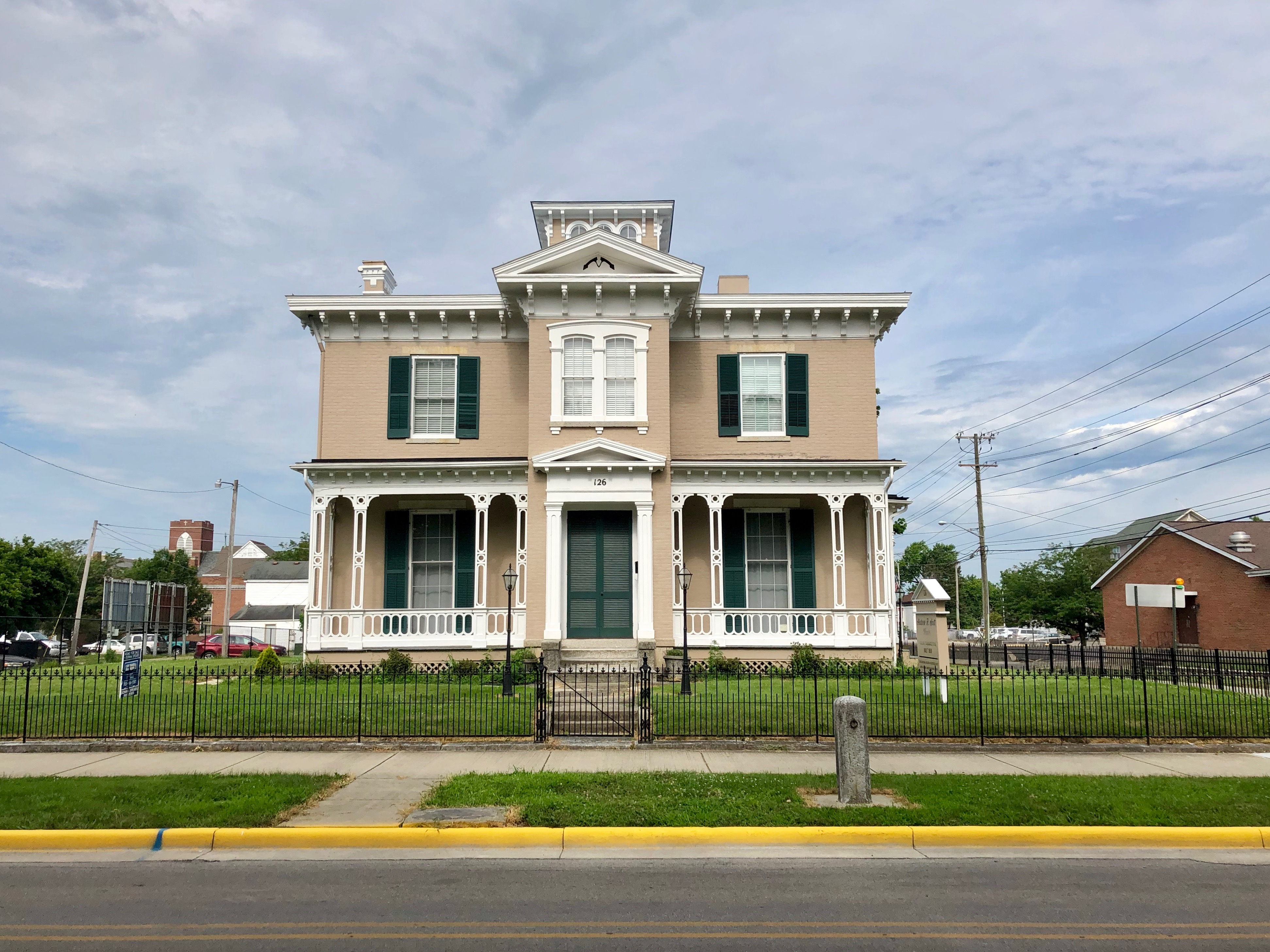 10th Street, Richmond, IN